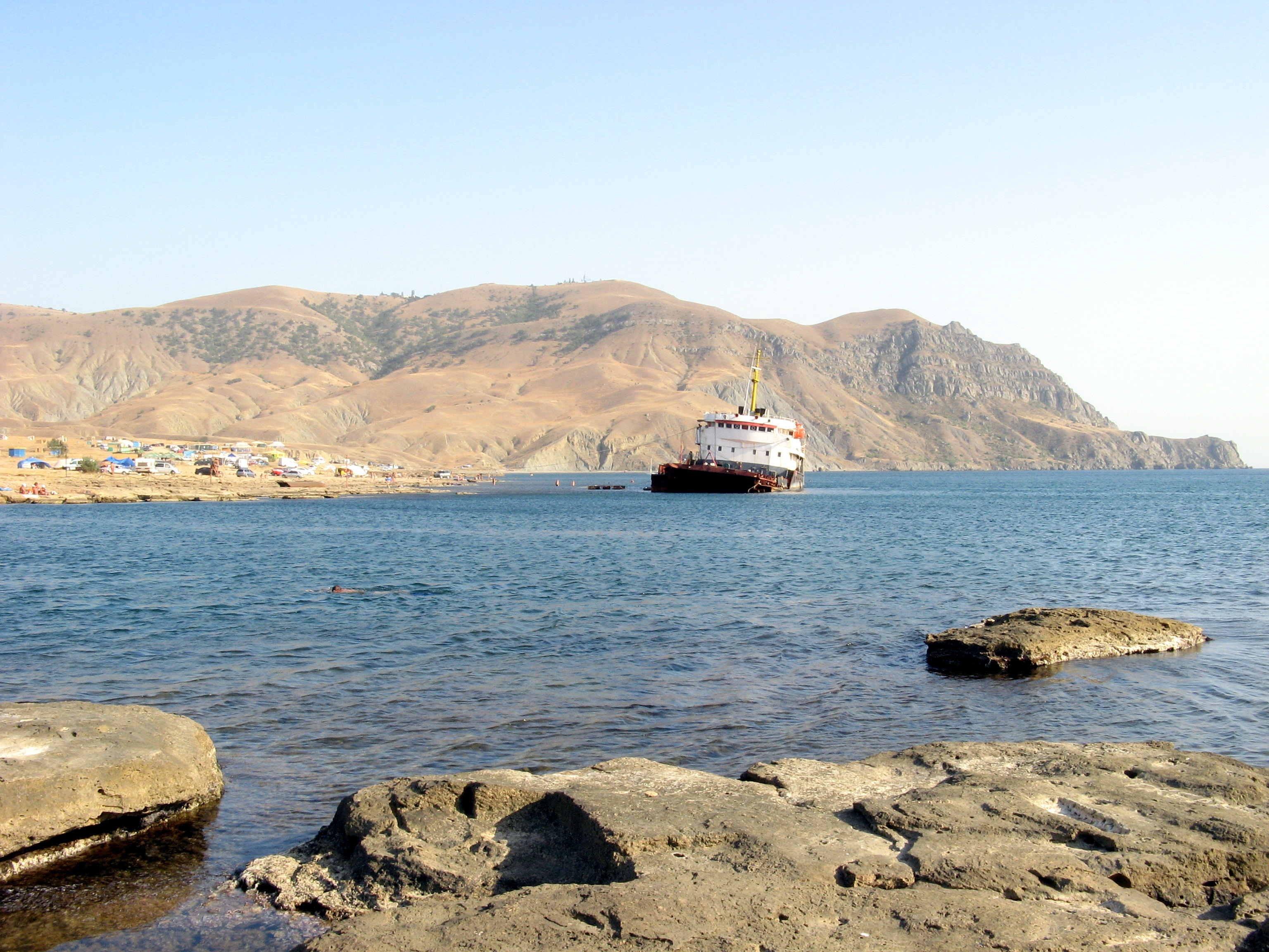 Meganom Cape from west